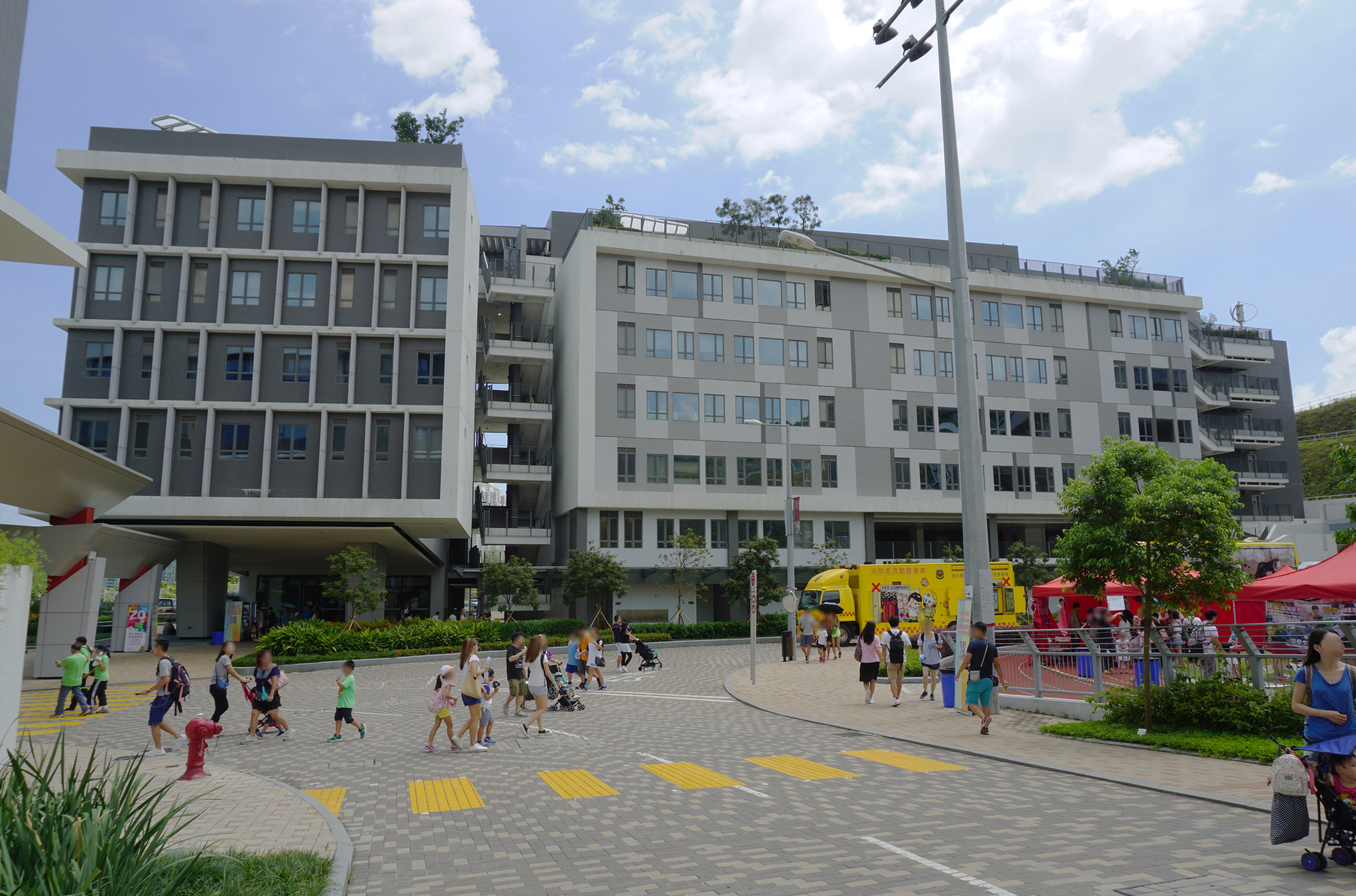 Fire and Ambulance Services Academy in Pak Shing Kok, Hong Kong.